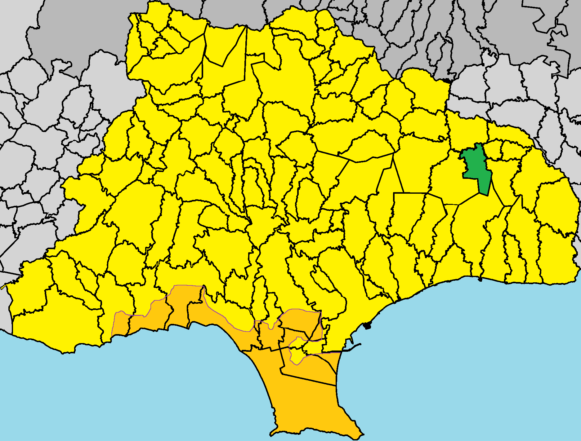 Kellaki in Limassol District.